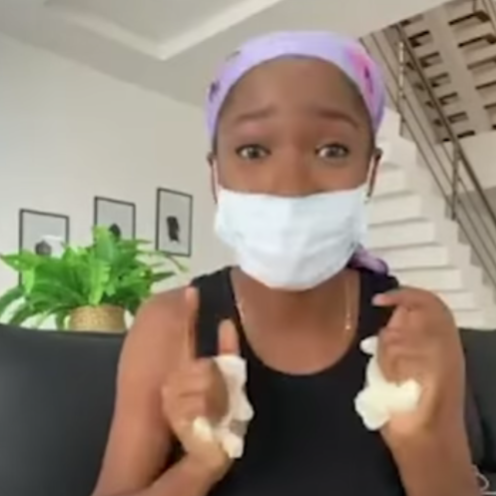 In MTV Shuga: Alone Together episode 7 there is an online conversation between Bongi (Mohau Cele)and Leila and then Bongi and Aunt N (Sthandiwe Kgoroge)